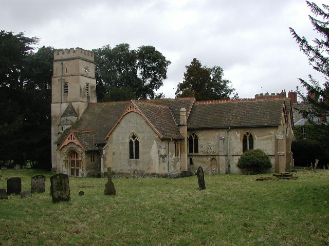 Church of England parish church of All Saints, Shirburn, Oxordshire.